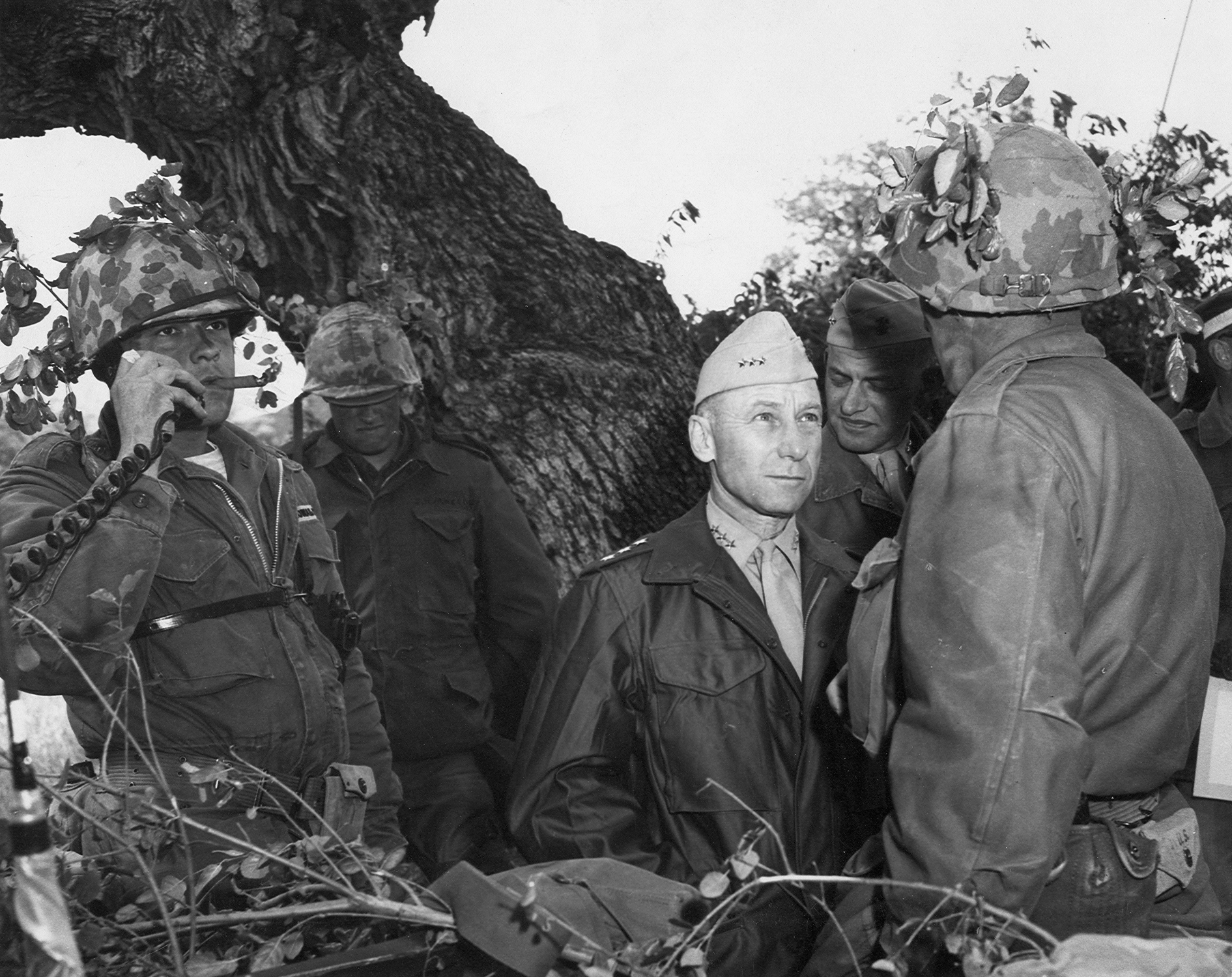 Lt. General Victor Krulak visits a tactical test conducted at Camp Pendleton on May 7, 1964. On the radio is Staff Sgt. Harold Earle Showalter trying to establish contact with the Battery Commander.